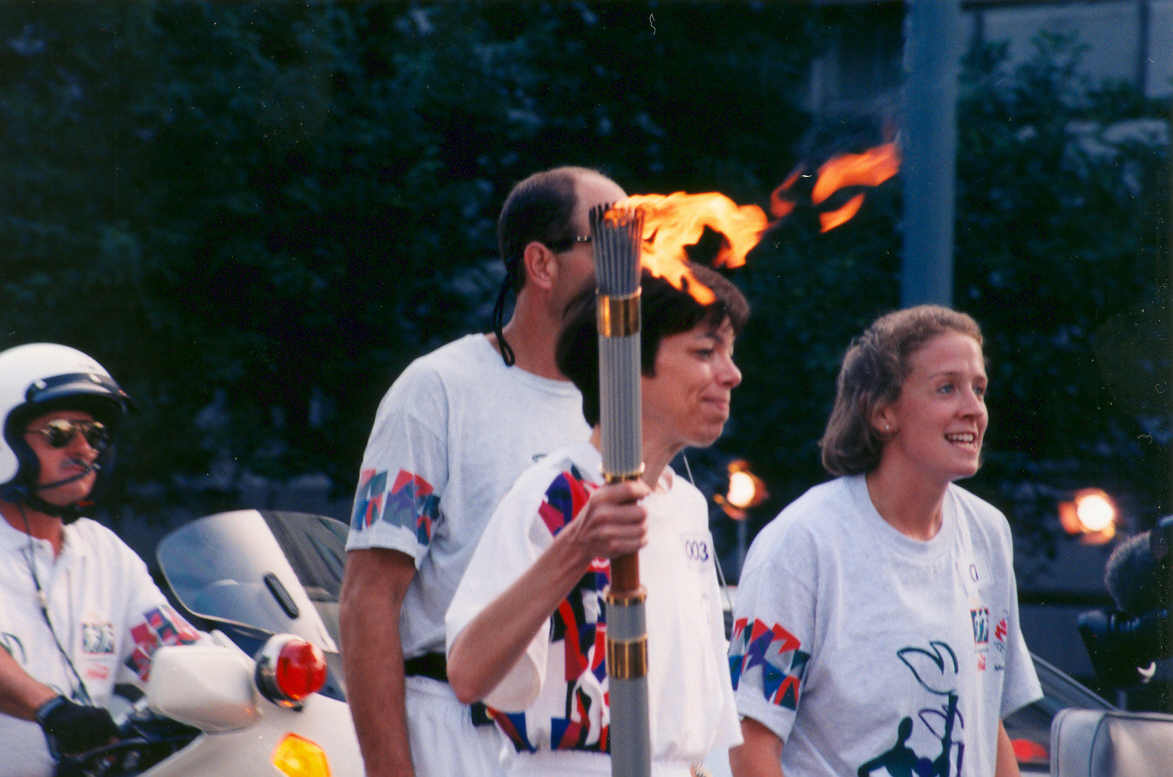 Olympic torch relay . Kim Brown (runner #3/3). 15th Street near Constitution Avenue. NW WDC. 21 June 1996